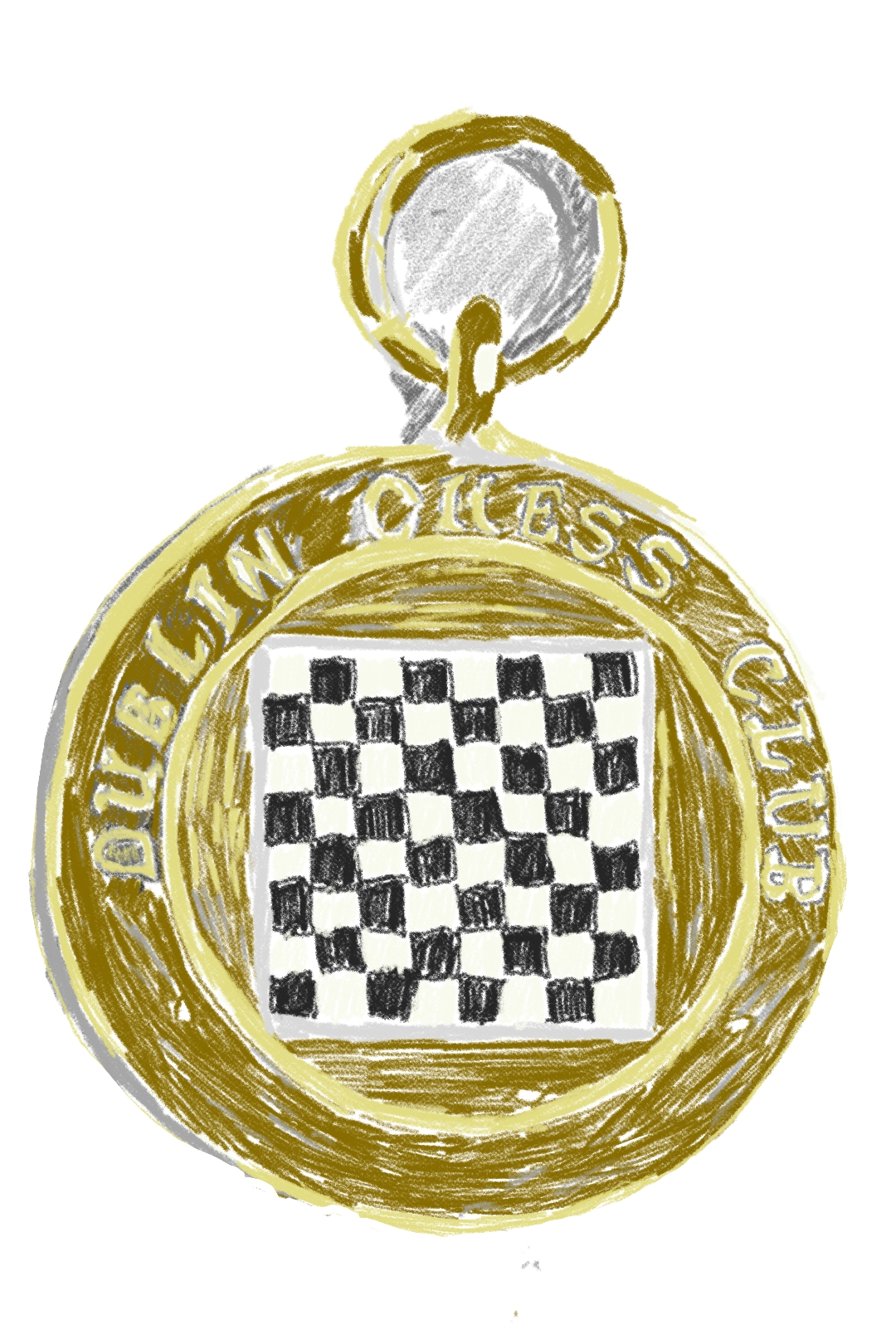 Impression of Dublin Chess Club medal won by John James O'Hanlon